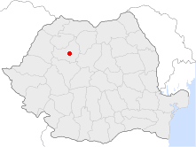 Location of Cluj-Napoca in Romania.